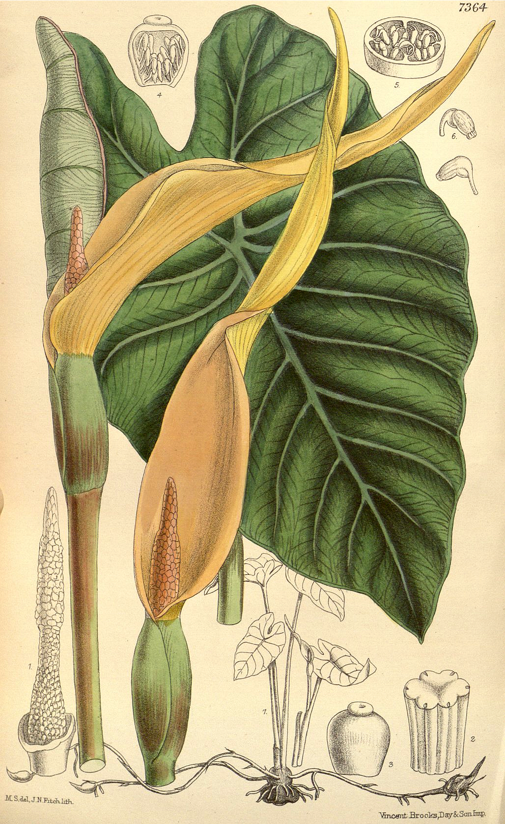 Colocasia esculenta botanical drawing